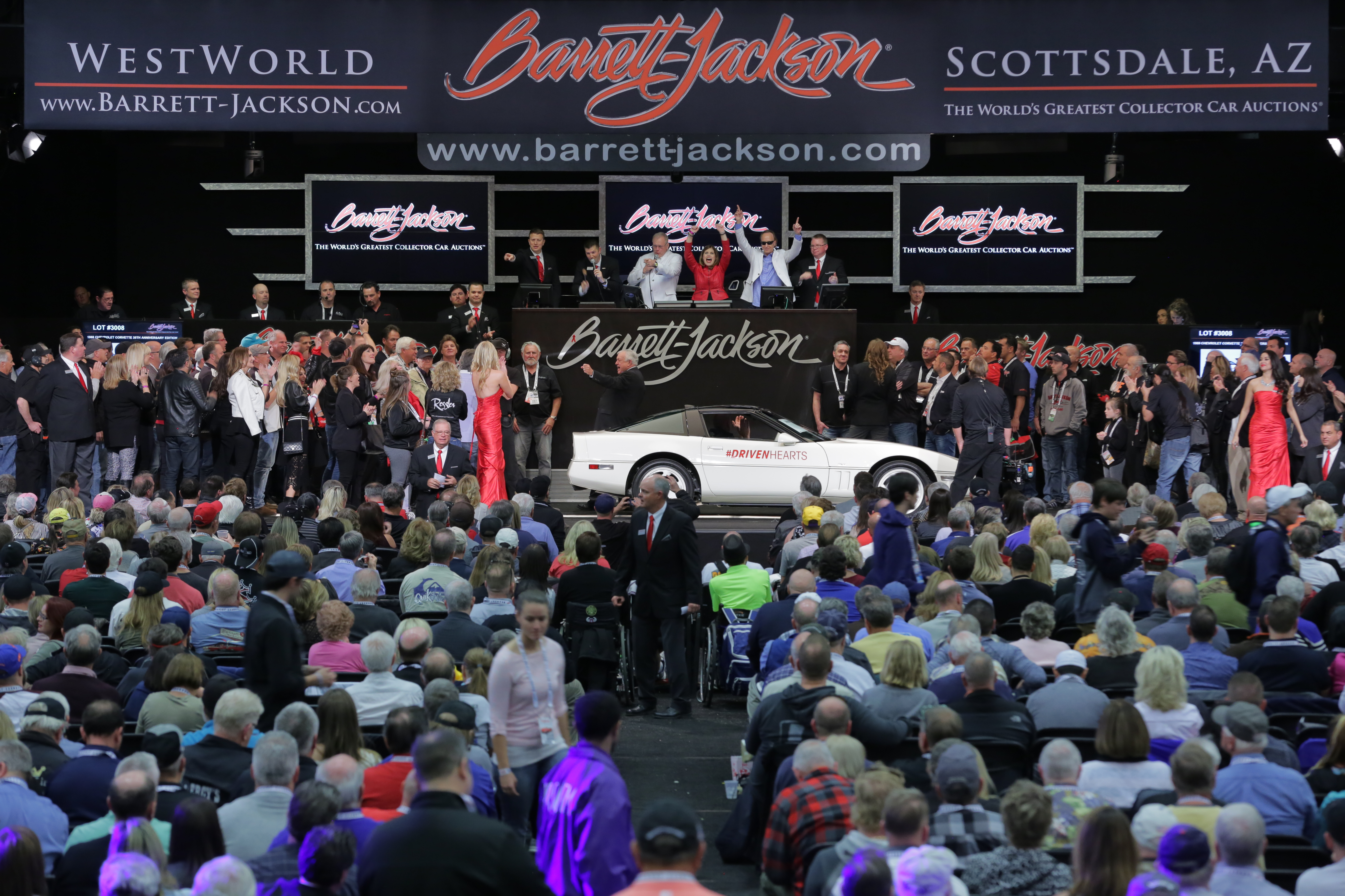 Carolyn and Craig Jackson's 1988 Chevrolet Corvette 35th Anniversary Edition raised $350,000 for the American Heart Association at the 2018 Scottsdale Auction.